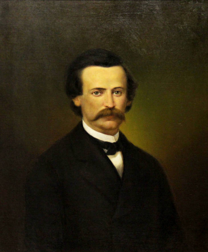 Portrait of Henry Timrod painted by Poindexter Page Carter in 1895, Richland Library, Columbia, S.C